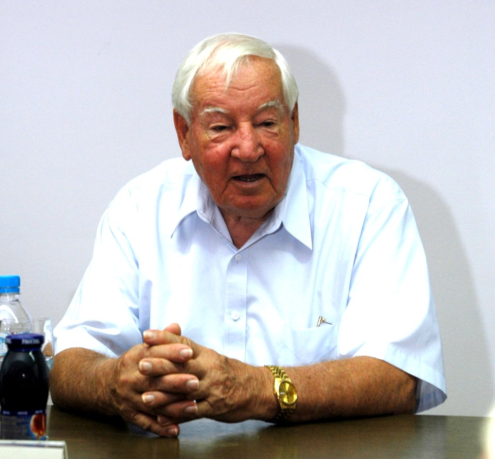 Joe Sutter, talking at the University of Nova Gorica, June 2006